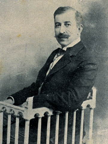 Halit Ziya Uşaklıgil 40 years old.